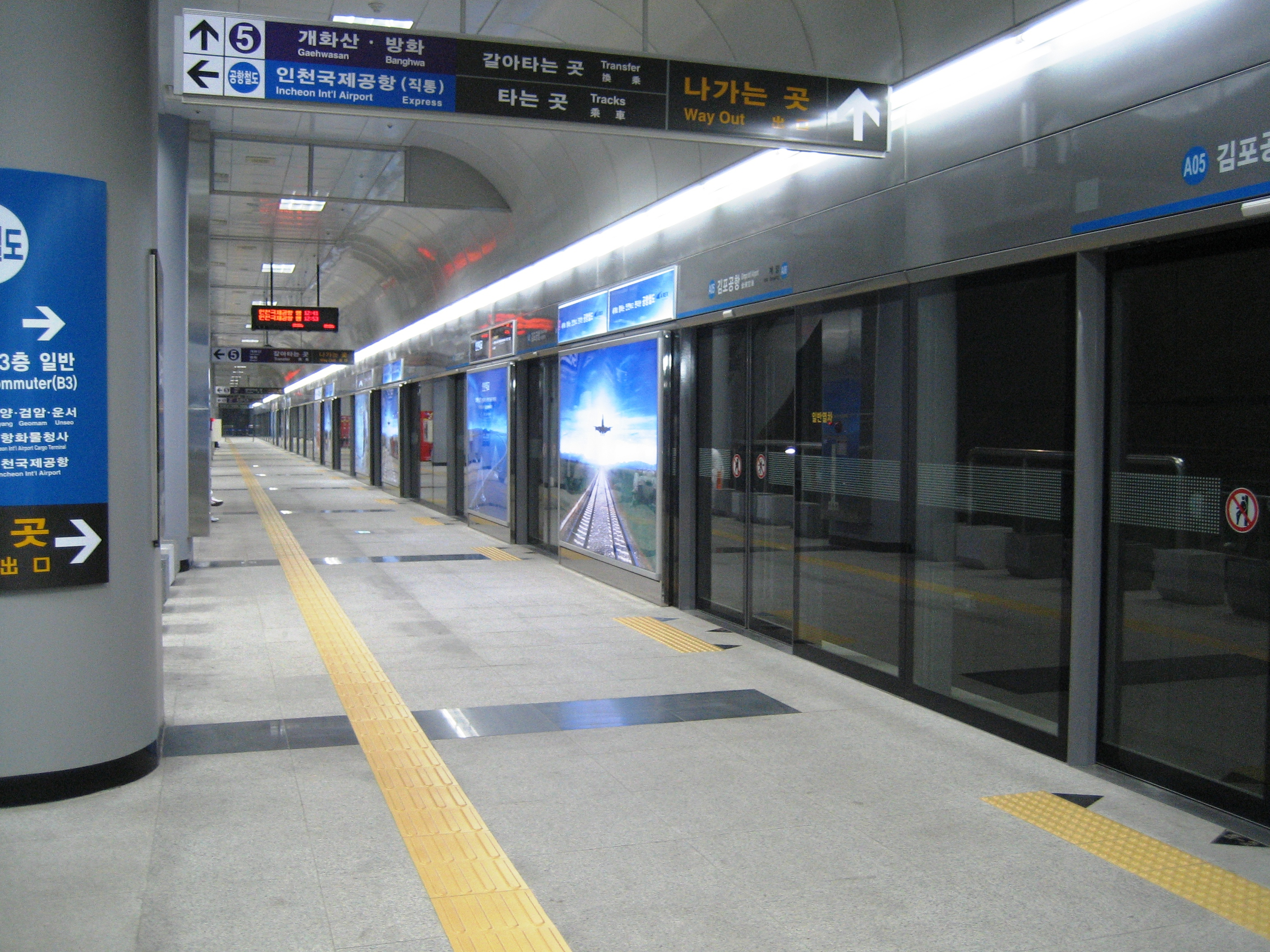 A'REX. Local Service Platform in Gimpo Airport Station.